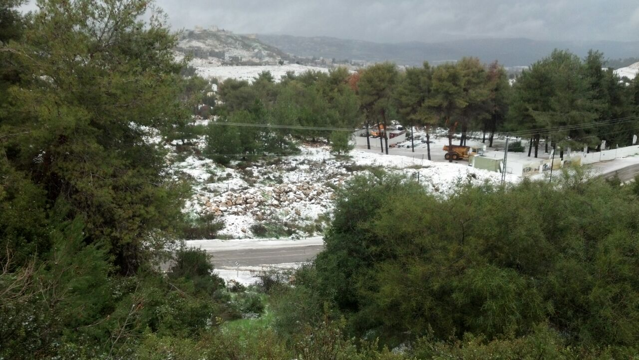 snow of safed